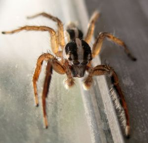 A male pantropical jumping spider (Plexippus paykulli) with one leg missing.